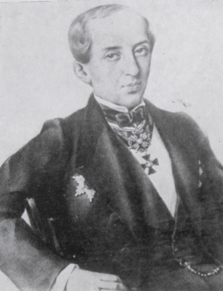 Dimitri Kipiani